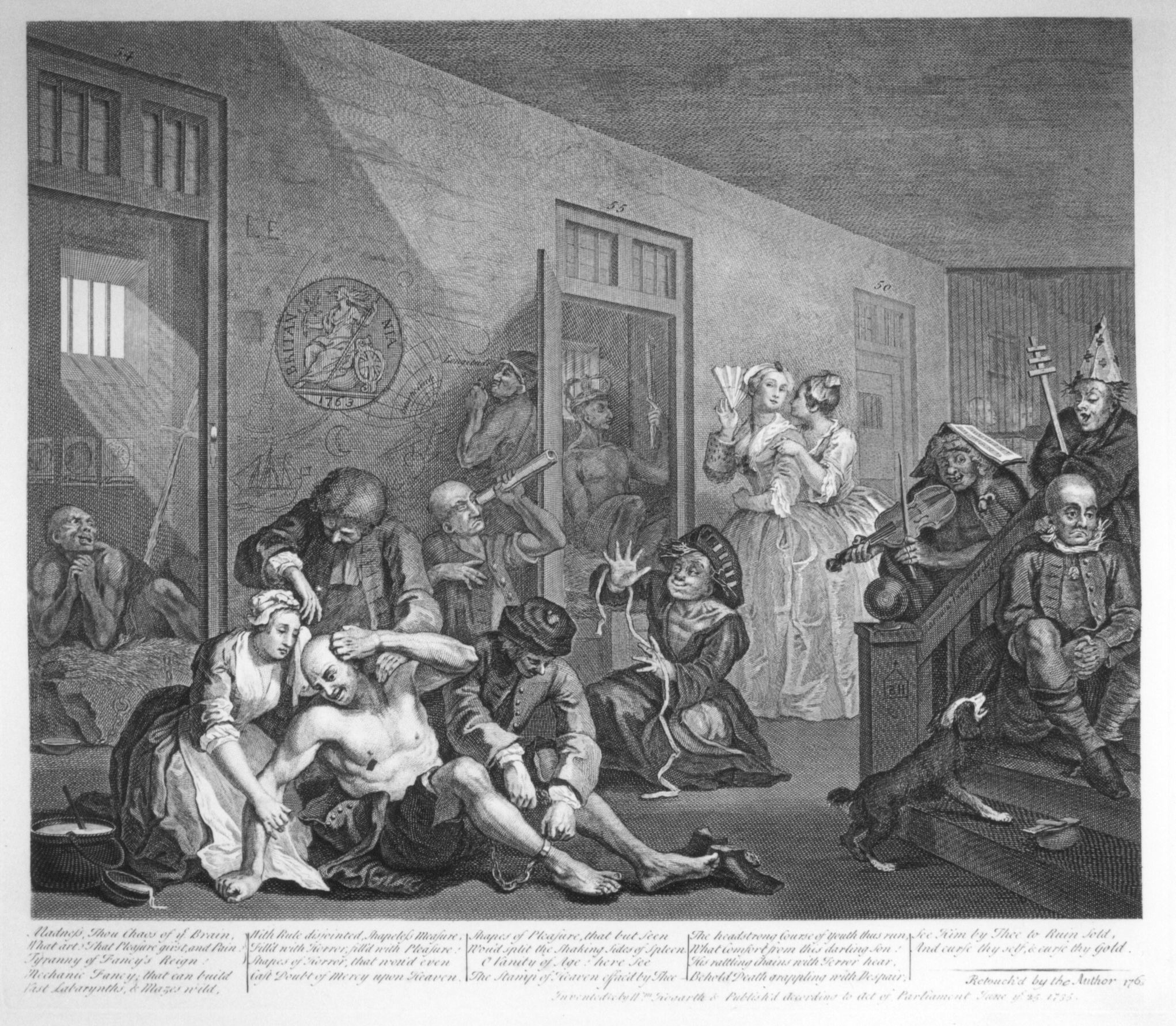 The Interior of Bedlam (Bethlem Royal Hospital), from A Rake's Progress by William Hogarth, 1763.